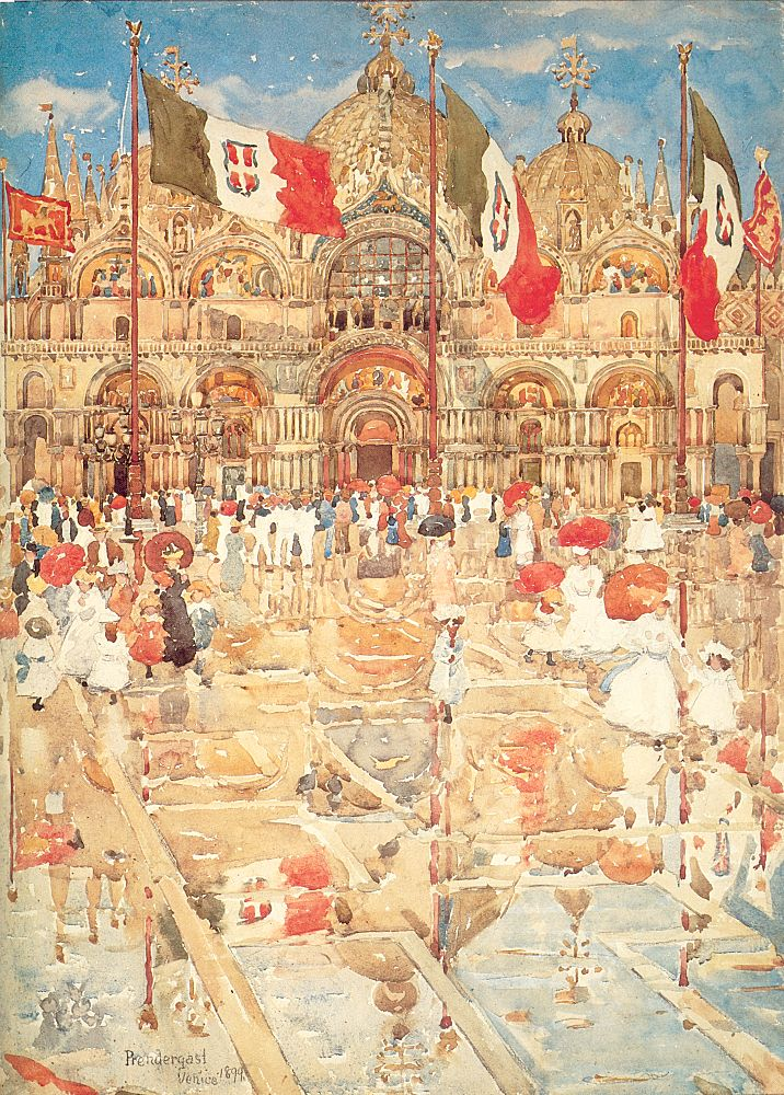 The city in the picture is Venice, Italy